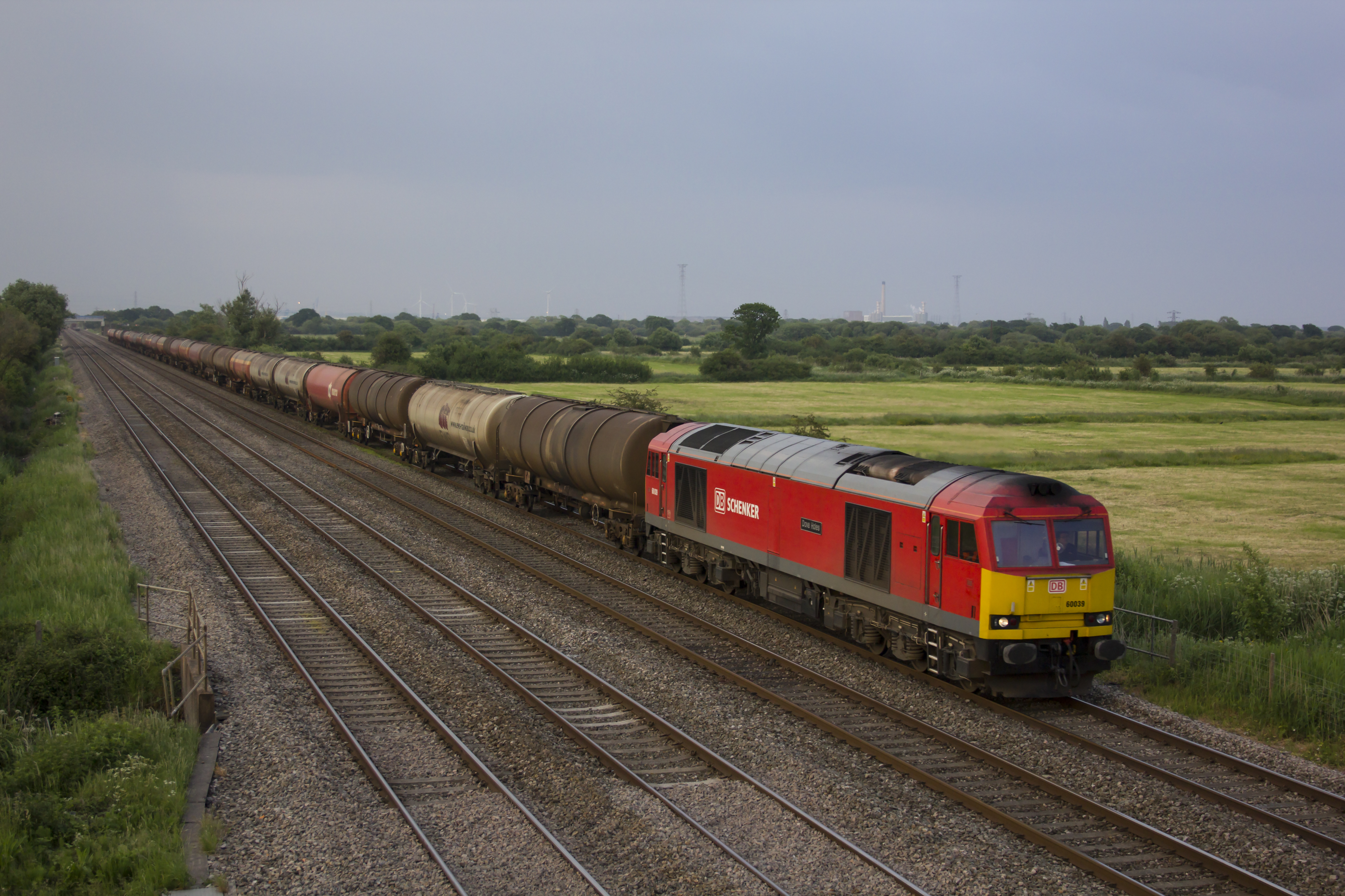 DB Cargo 60039 is seen passing Coedkernew (to the west of Newport) with the 1814 Westerleigh Murco to Robeston Sidings working on 6th June 2016.